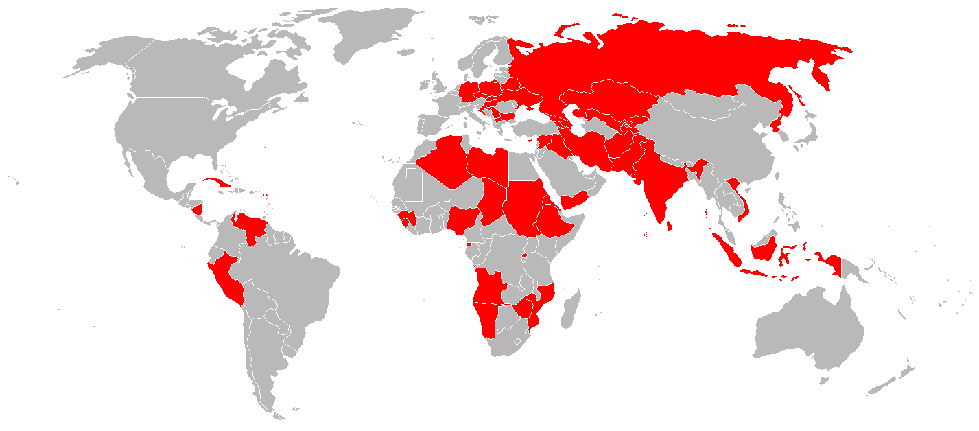 World map of Mil Mi-24 operators